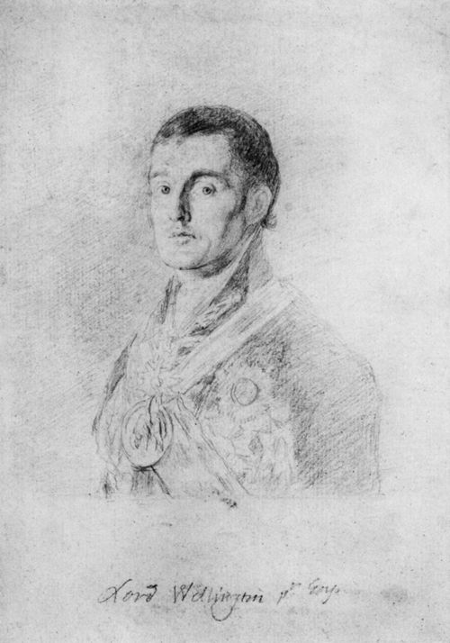 The Duke of Wellington